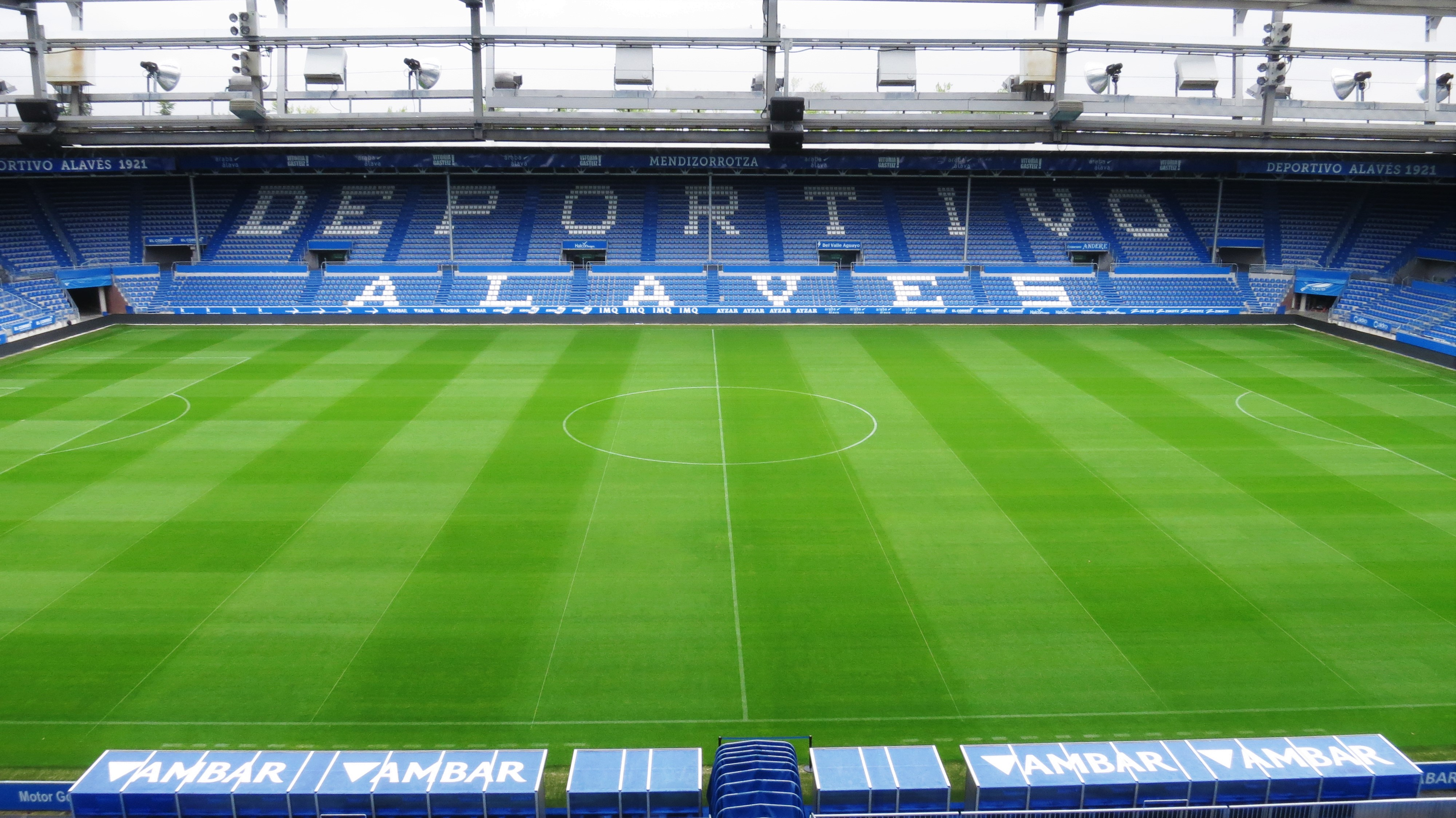 Mendizorrotza football stadium seen from the box.